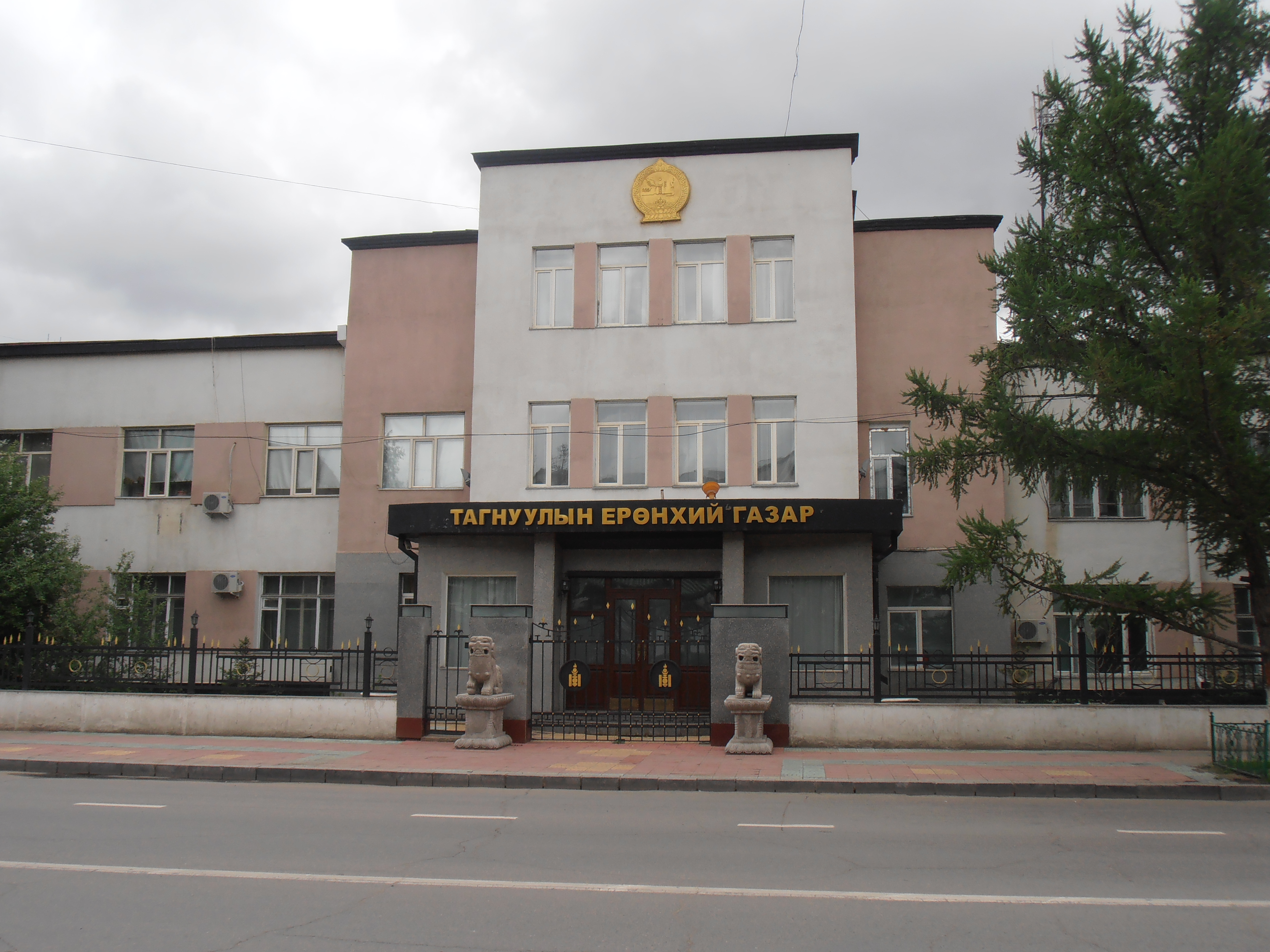 Generan Buerau of Investigation (Ulan-Bator, Mongolia)